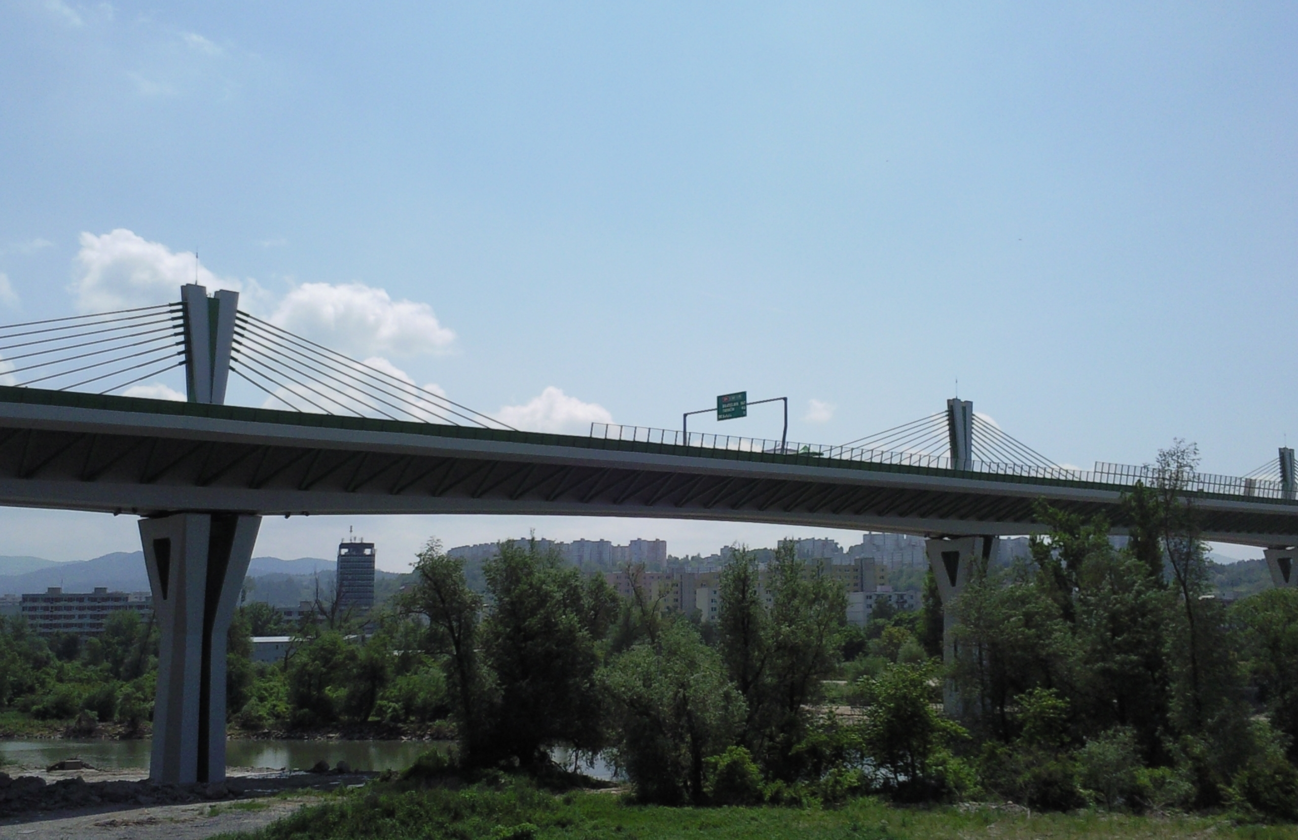 Viaduct